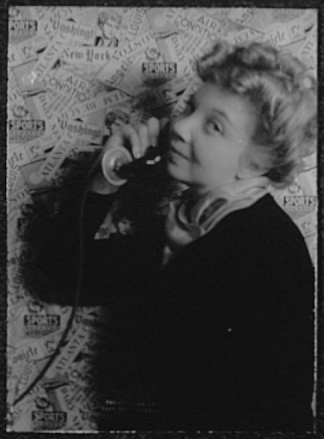 Title: Portrait of Leonor Fini Abstract: 1 photographic print : gelatin silver.